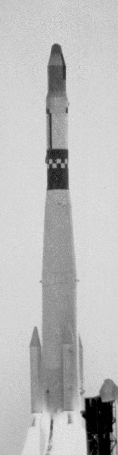 Launch of the Thor SLV-2A Agenda D rocket carrier with satellite Corona 92.